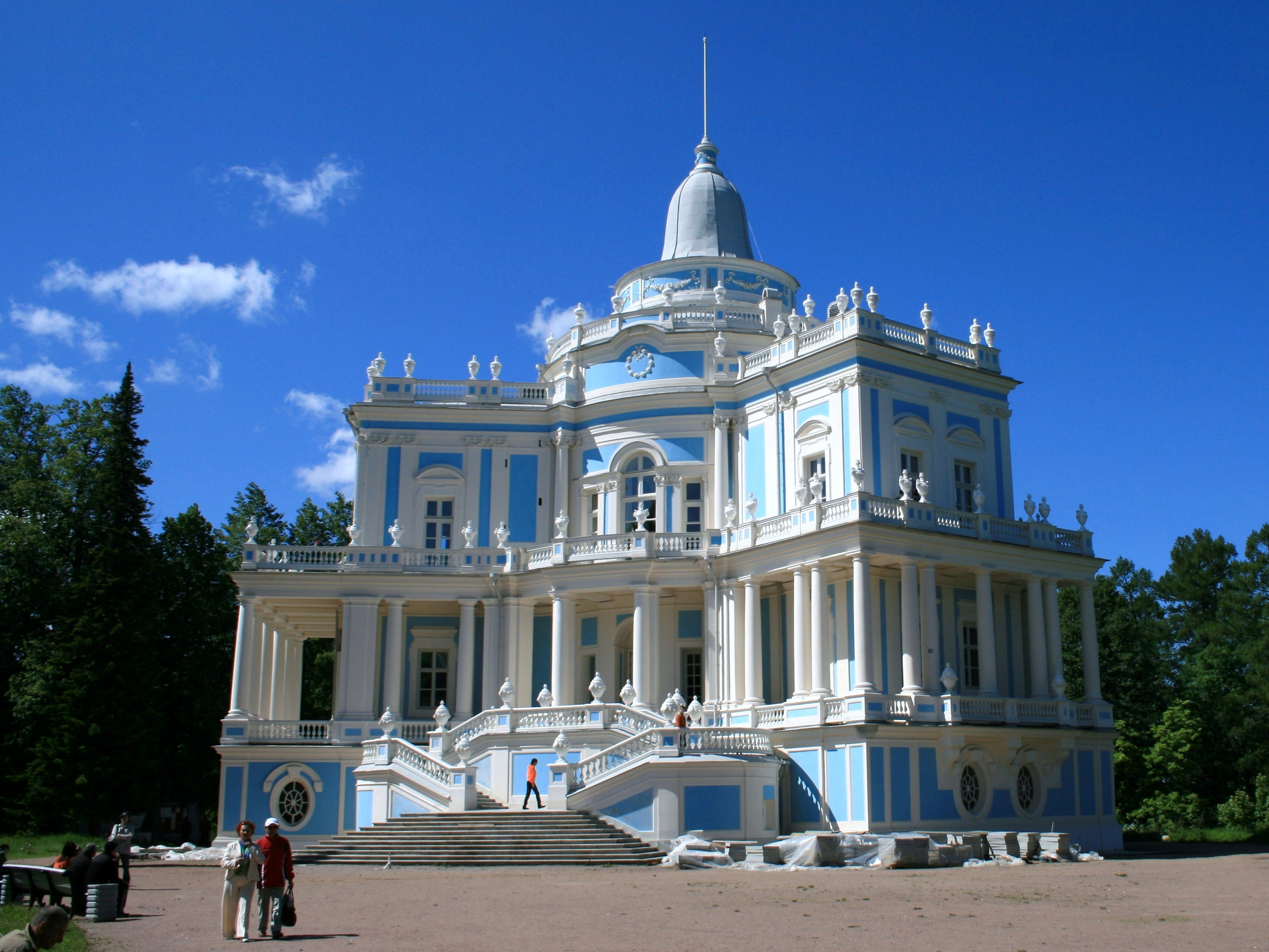 The Katalnaya gorka pavilion in Oranienbaum (Russia) after the restoration in 2007